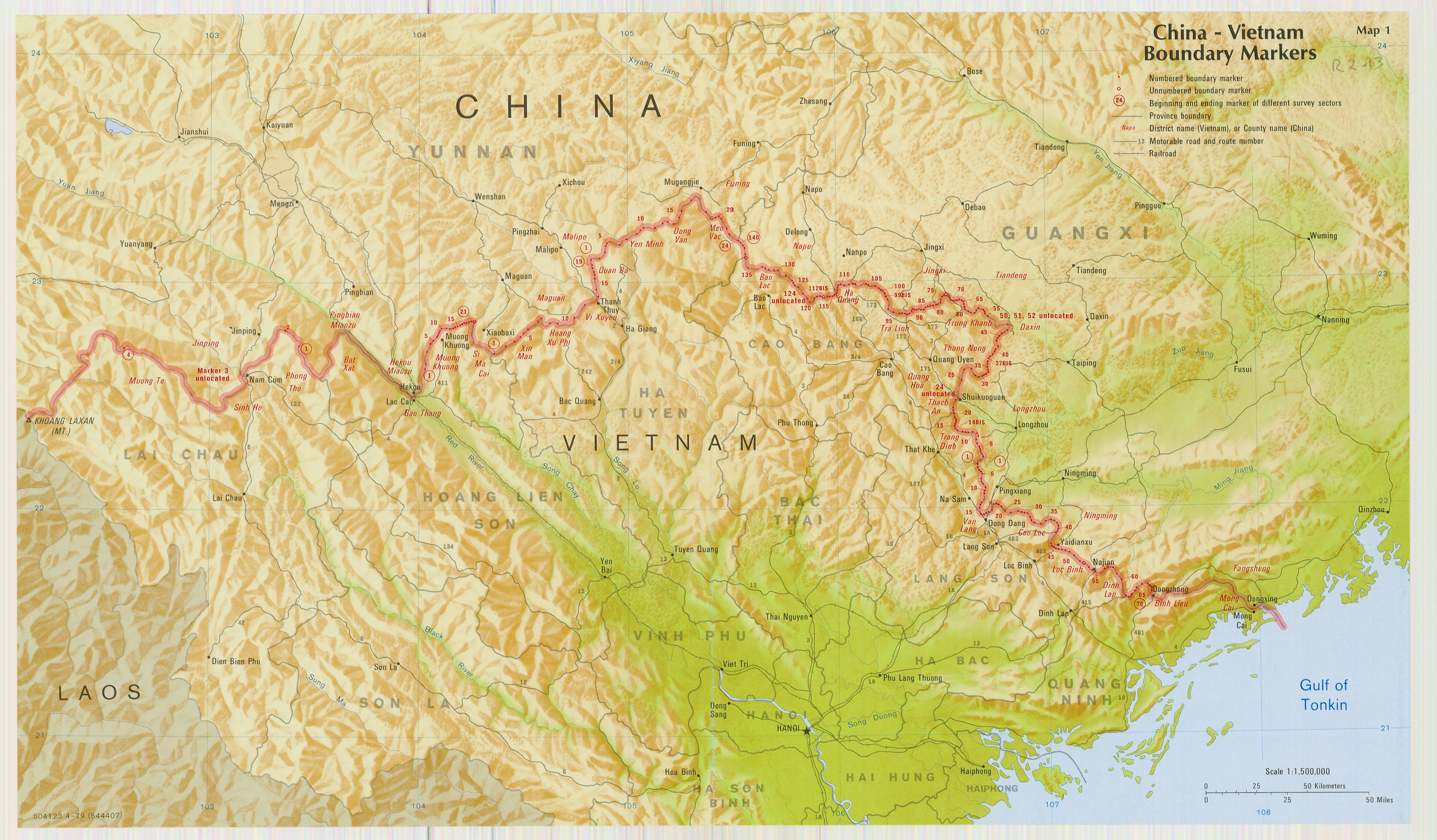 Scale 1:5,000,000 (E 102 --E 108 /N 24 --N 18 ) map: col. ; 21 x 17 cm Monthly Catalog Number: gp 9012088 Relief shown by shading. Shipping list no.: 89-207-P. "800918 (A06009) 9-88." Govdoc no.: PREX3.10/4:C44/27 PrEx 3.10/4:C 44/27 PrEx3.10/4: C44/27